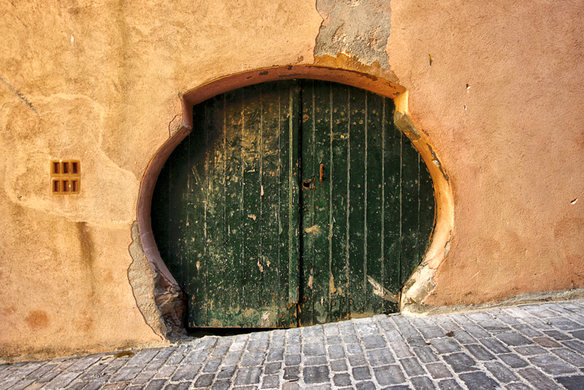 Saint-Tropez. Provence-Alpes-Côte d'Azur, Southern France. Jul 2012